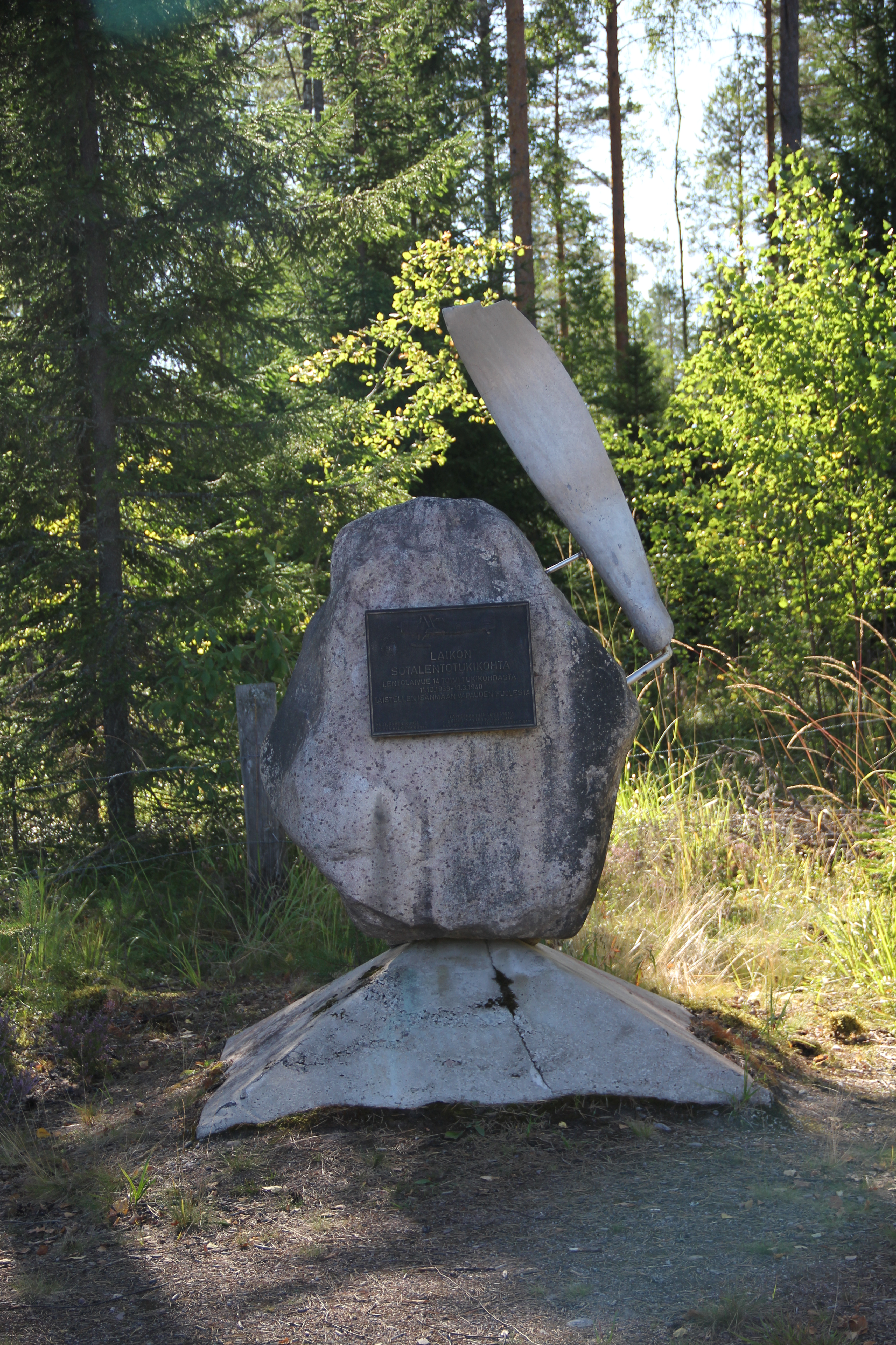 Laikko military air base memorial, Laikko, Rautjärvi, Finland. - Memorial.